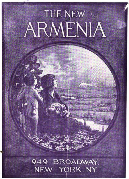 The New Armenia